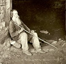 Robert Gill, detail of photo in the British Library